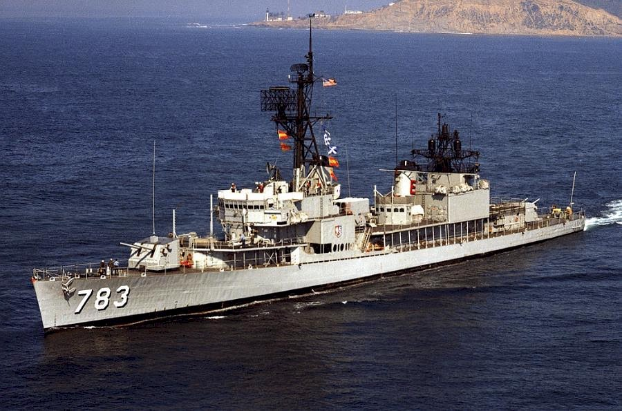 The U.S. Navy destroyer USS Gurke (DD-783) underway, circa in the early 1970s.